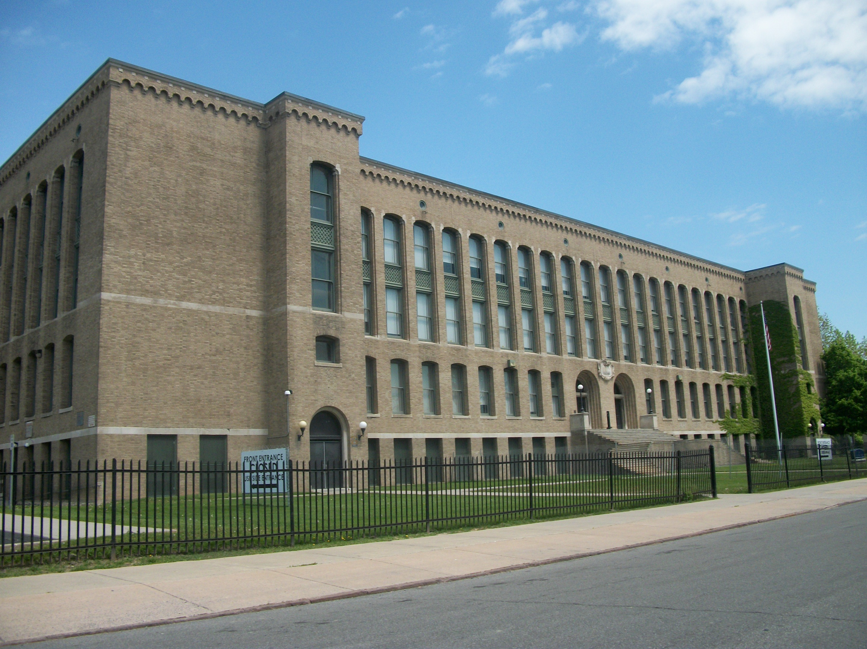 East High School 820 Northampton Street Buffalo, NY 14211